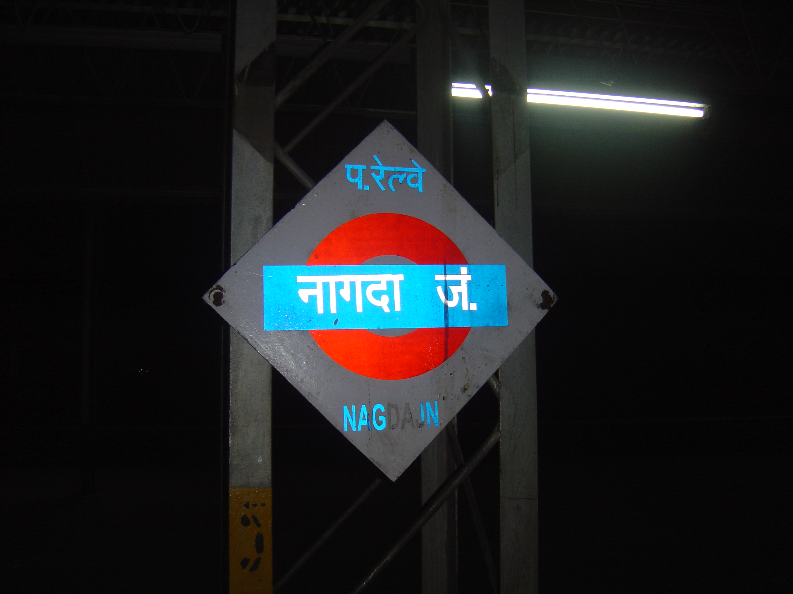 Nagda Junction - platformboard